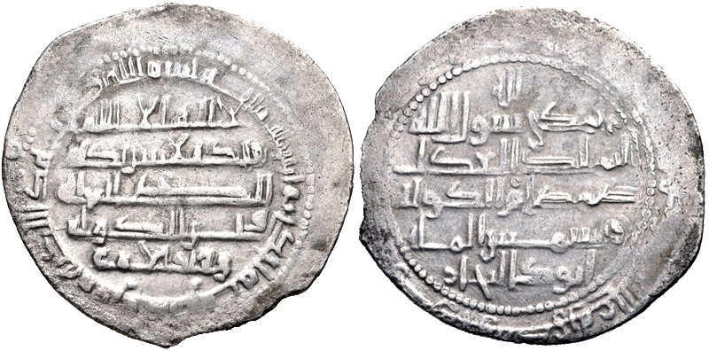 Coin of the Buyid ruler Samsam al-Dawla.